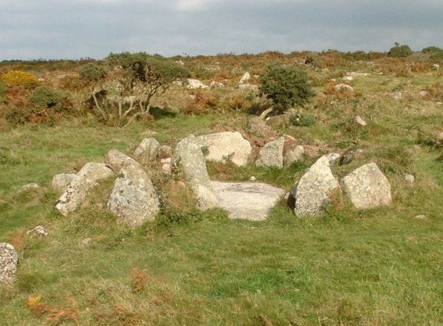 Hut circle at Bodrifty Too small to have been a dwelling; I would imagine this to have been some sort of store or possibly an animal shelter.